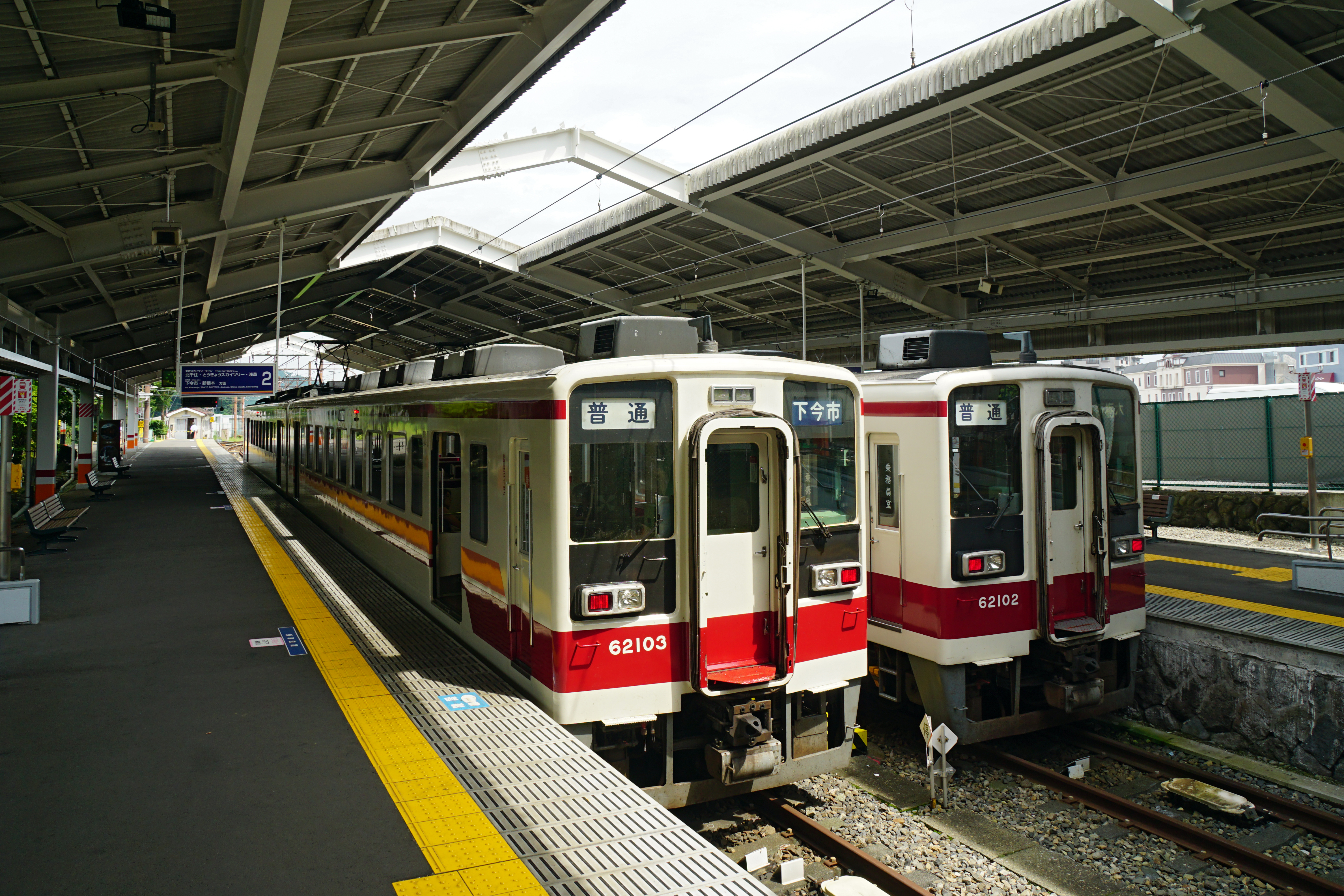 Two Yagan Railway 6050-100 series EMUs at Tōbu-Nikkō Station in Nikko, Tochigi prefecture, Japan